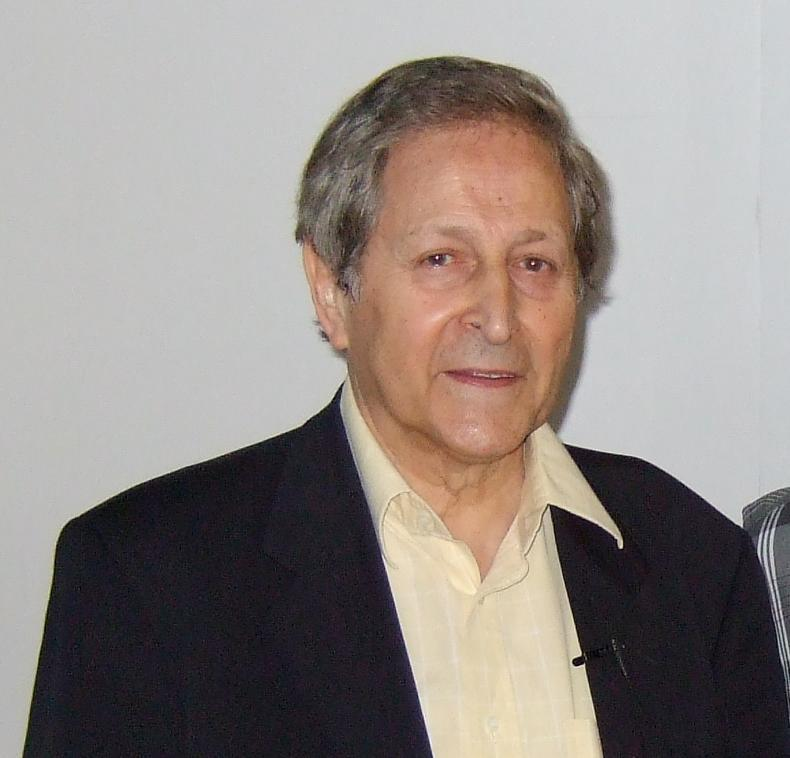 Nobel Laureate Claude Cohen-Tannoudji after a lecture at Ben-Gurion University of the Negev))